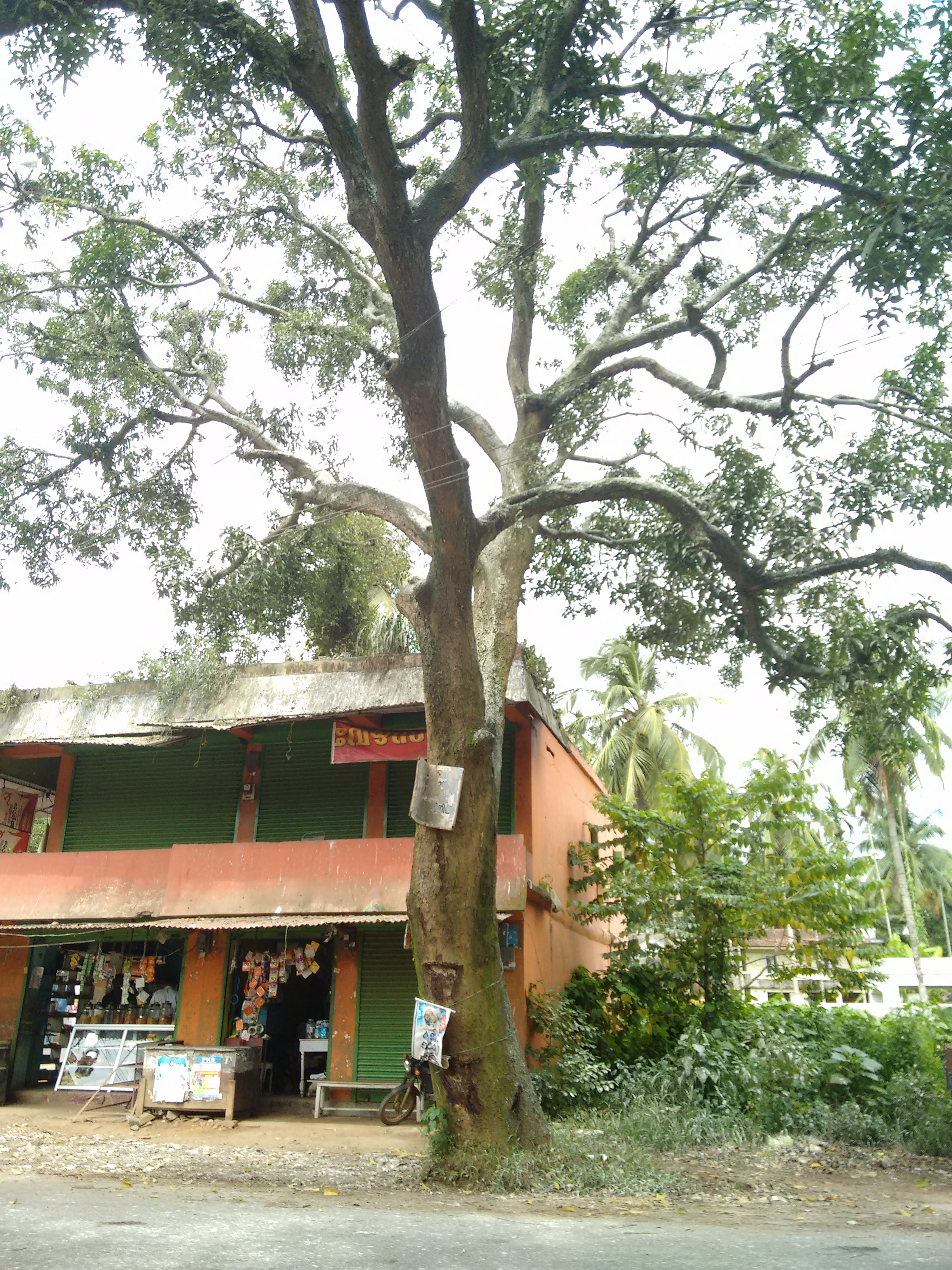 Heronary